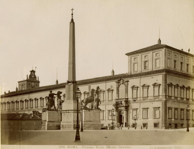 Fratelli D'Alessandri: Rome, Royal Palace. Catalogue # 268.